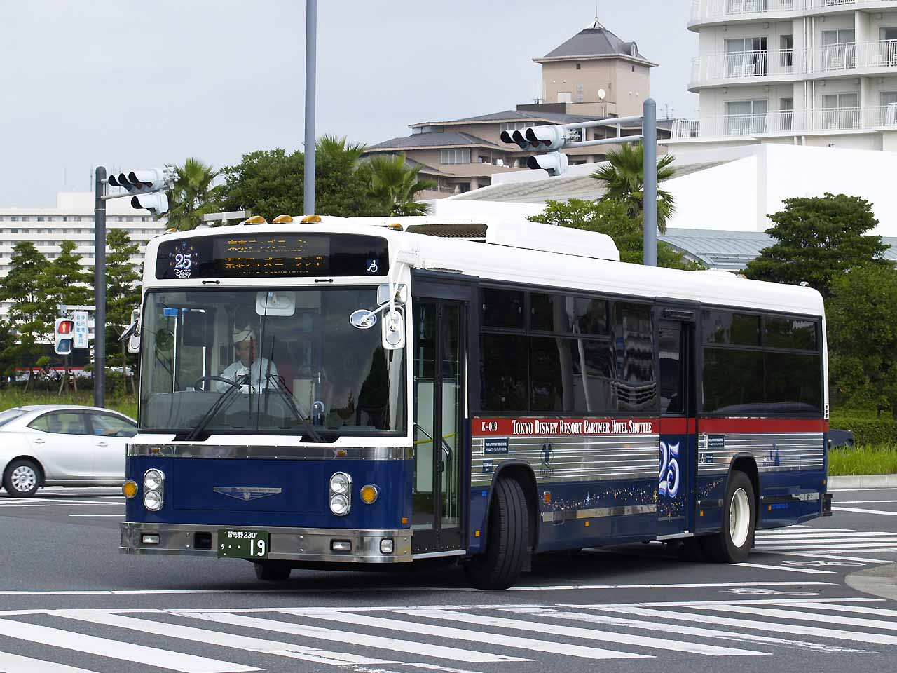 Fleet of Keisei Transit Bus, 2nd group of Tokyo Disney Resort Partner Hotel Shuttle since 2007. Model: Hino Blue Ribbon II PJ-KV234Q1 License plate: CBN230 U--19 Place: neighboour of Meikai University, Urayasu city, Chiba Japan